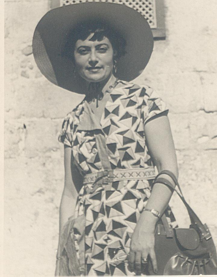 Shoshana Shrira